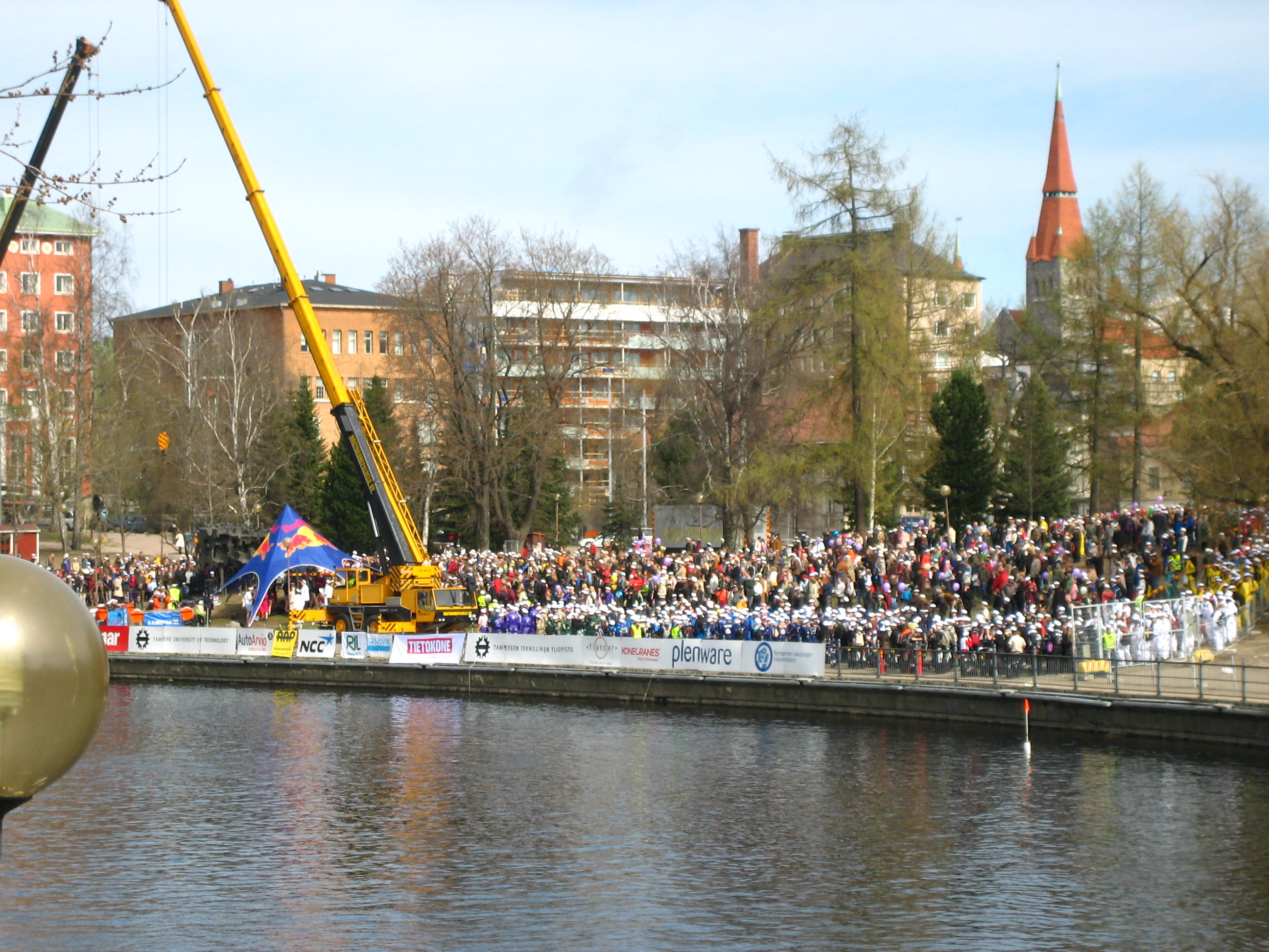 Freshmen of Tampere University of Technology waiting for the teekkarikaste (lit. "baptism of technoloy student" in Tammerkoski, at the city center of Tampere Finland. The coulourful overalls can be attributed to different student clubs: Violet: Hiukkanen, Guild of science and engineering, Brown, Bioneer, Guild of biotechnology, Green: YKI, Guild of environmental engineering, Light blue: Electricity guild Navy blue: Tampere civil engineers' guild, Black: Tampere Architects' guild White: Indecs, Guild of Industrial economics and management Yellow: Guild of Automation Technology Behind the students, there is a crowd of spectators, most wearing white student caps. Under the tent, the first "babtized" students are dressing, while membes of secret society Bleibeijit (in white overalls) are hosting the occasion.